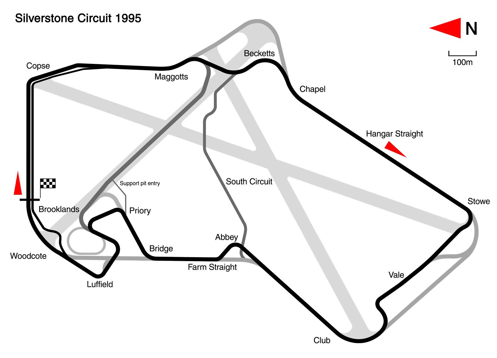 Track diagram of Silverstone Circuit in the UK in 1995 configuration. Made to scale from aerial photographs.